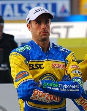 Niels-Kristian Iversen in season 2013